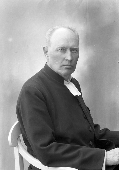 UMFA53690 25721 Georg Engström 1927